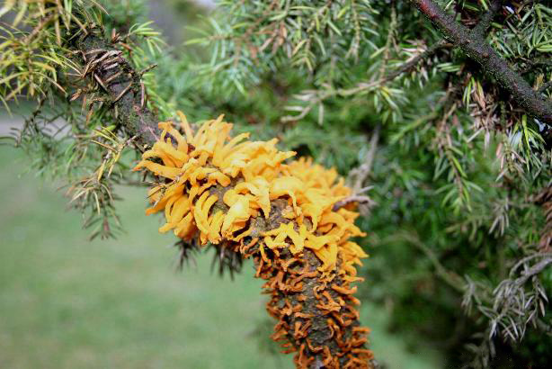 Hawthorn-Juniper rust as it looks on Juniperus communis